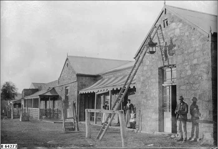 FARINA: Premises of the Transcontinental Hotel at Farina, South Australia c.1900, photographer Sydney Phillips. State Library of South Australia, B64273